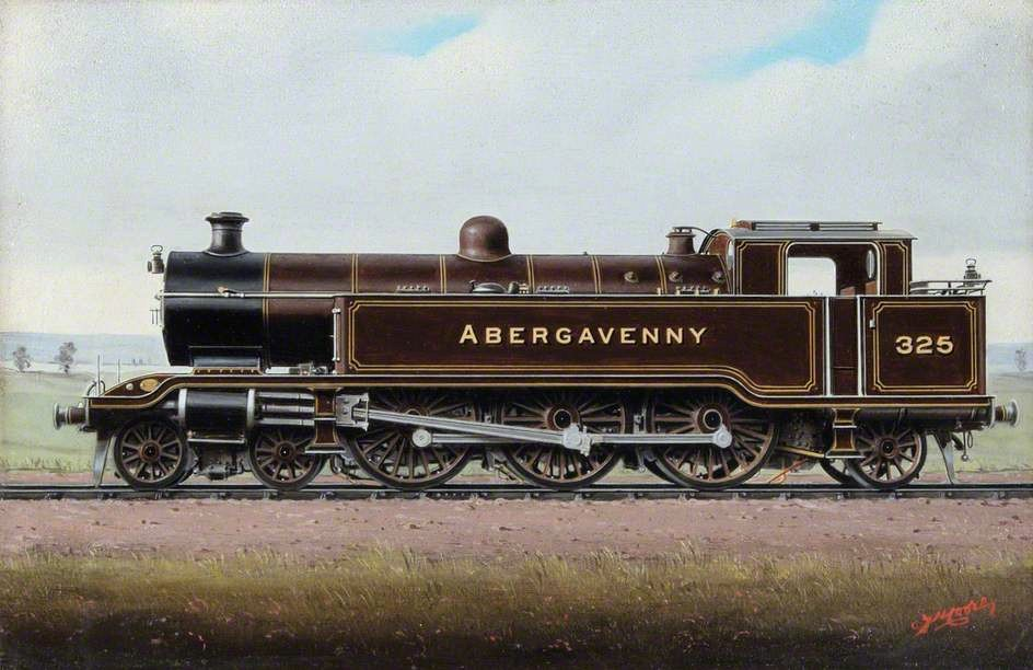 J1 class lomotive as built